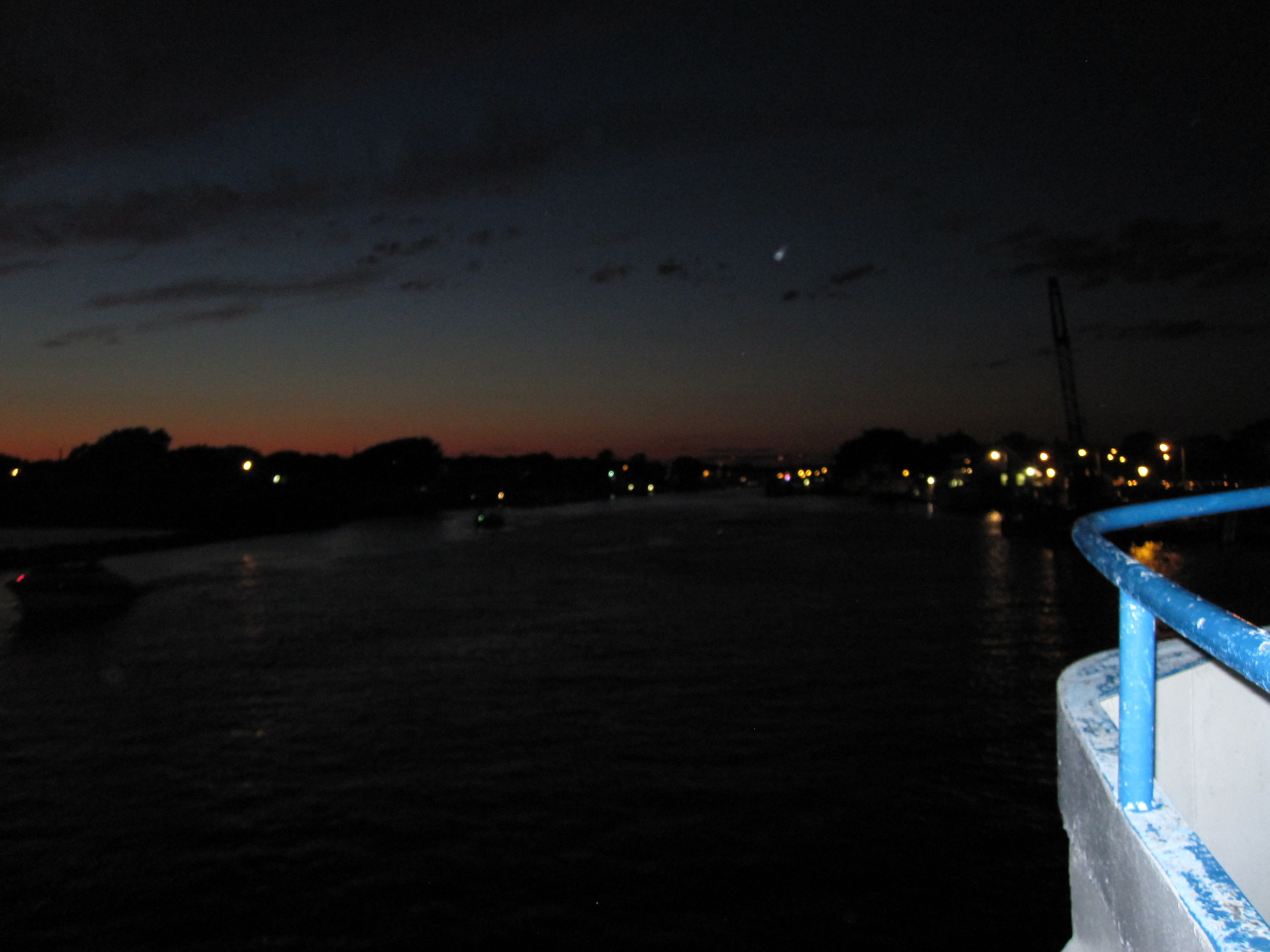 Ferry Returning to Patchogue from Davis Park NY